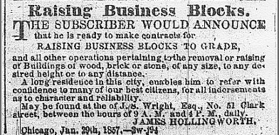 A photocopy of a scan of an advertisement taken from column seven of the front page of the Chicago Daily Tribune of Friday morning, January 29th, 1858. The date appearing in the advertisement reads "Jan. 29th, 1857", and indeed this same advertisement did appear in several editions of the Chicago Tribune published in 1857. Nevertheless, this scan is actually taken from the Chicago Daily Tribune issue of 29th January, 1858 -- not 29th January, 1857, as erroneously suggested in the advertisement. Don't even get me started on the misspelling of Hollingsworth, and other mistakes in the ad. ;)